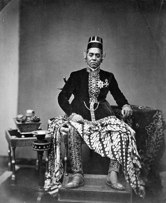 Photo. Sultan Hamengkubuwono VI from Yogyakarta (1855-1877).